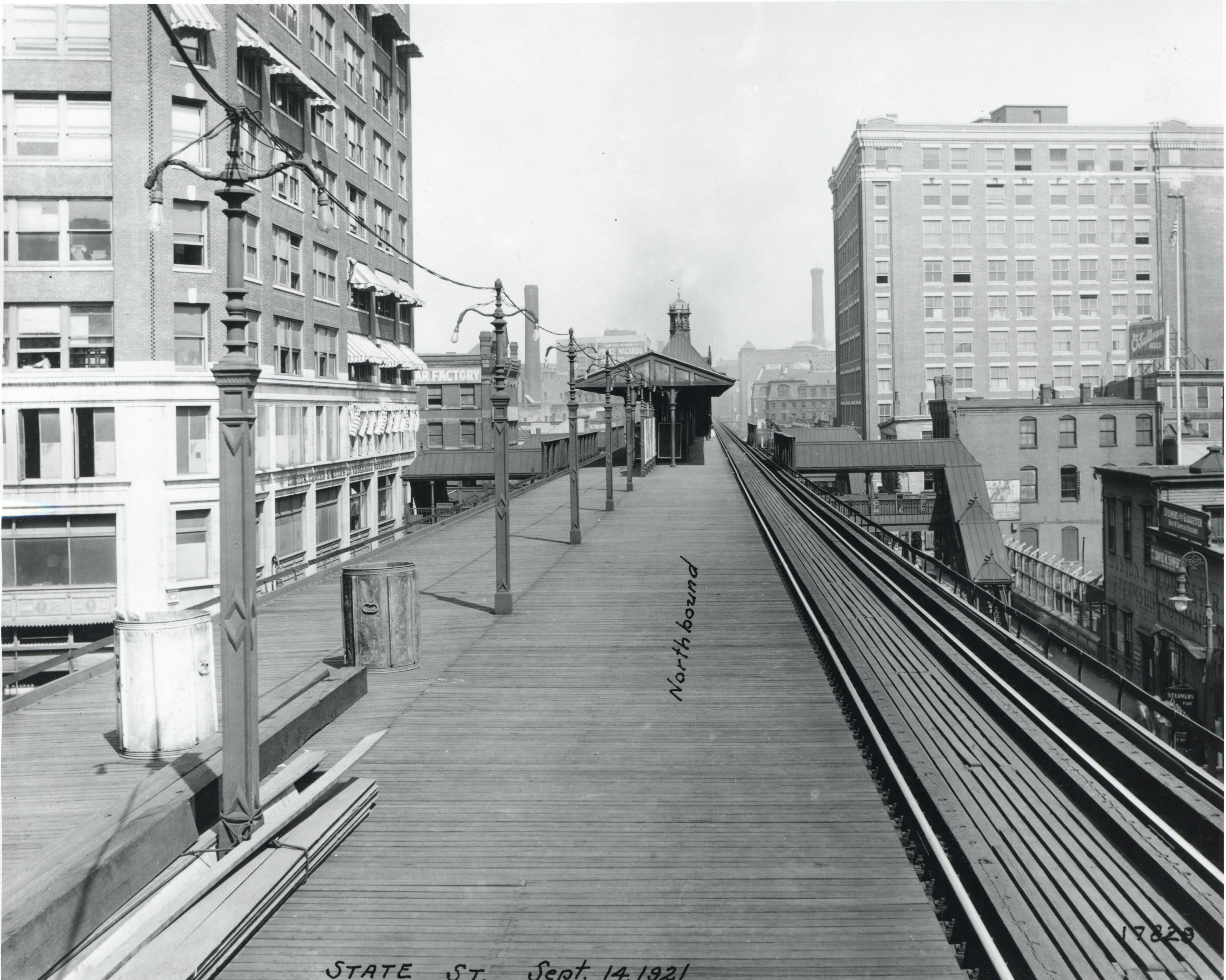 Facing north on the platform of State Street station in September 1921